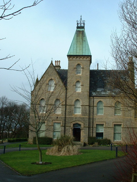 Bagshaw Museum. This impressive Victorian Gothic former mill owner’s house is set in 36 acres of Wilton Park The home of George Sheard from 1875-1902, the house became a museum in 1911 and was named after its first curator, Walter Bagshaw.